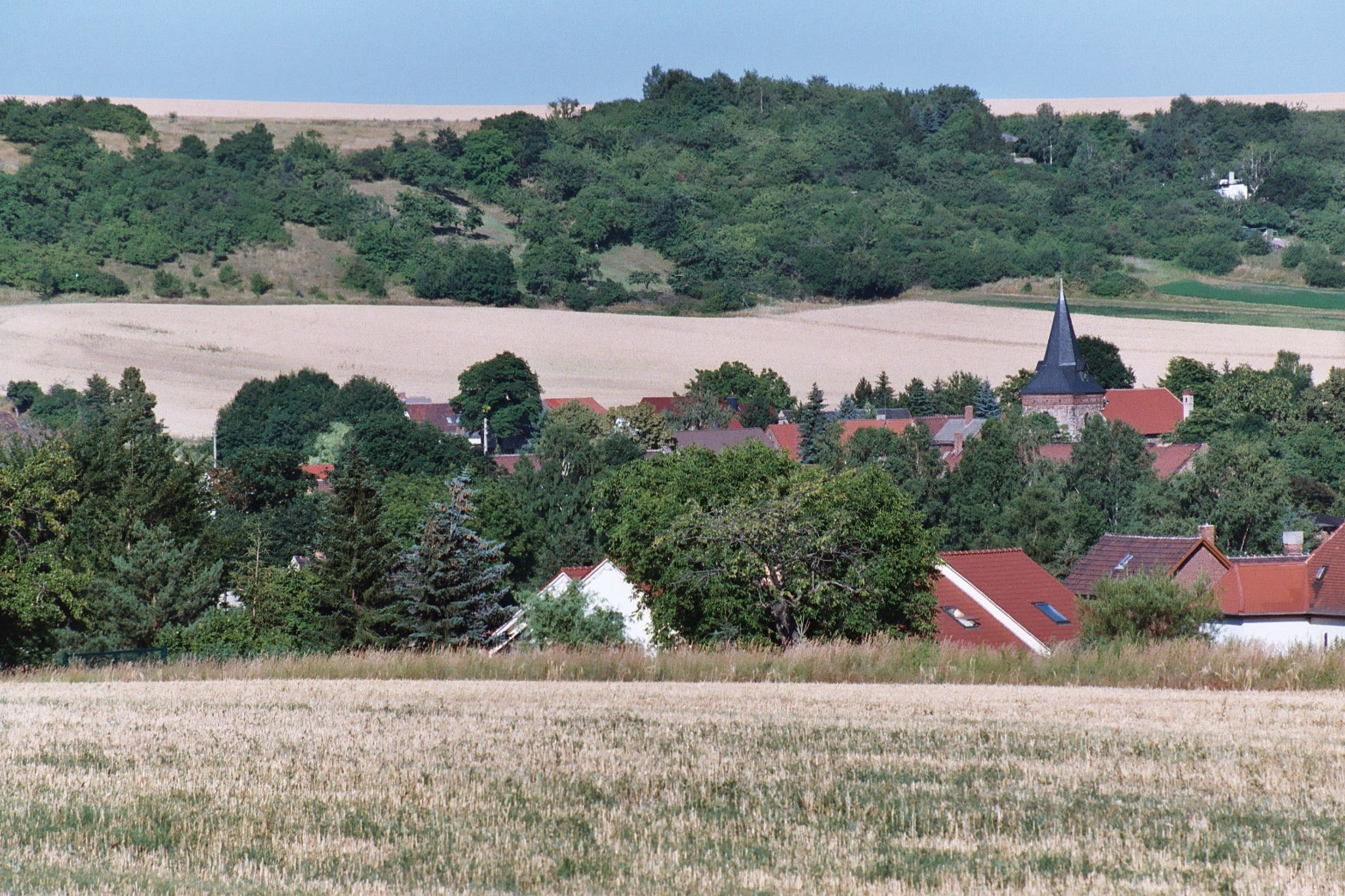 Volkstedt (Lutherstadt Eisleben), view to the village church